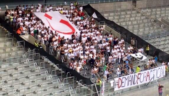 Assyriska fans, during a soccer game between Assyriska – Hammarby in 2014-07-28, supporting the 'A Demand for Action' campaign.